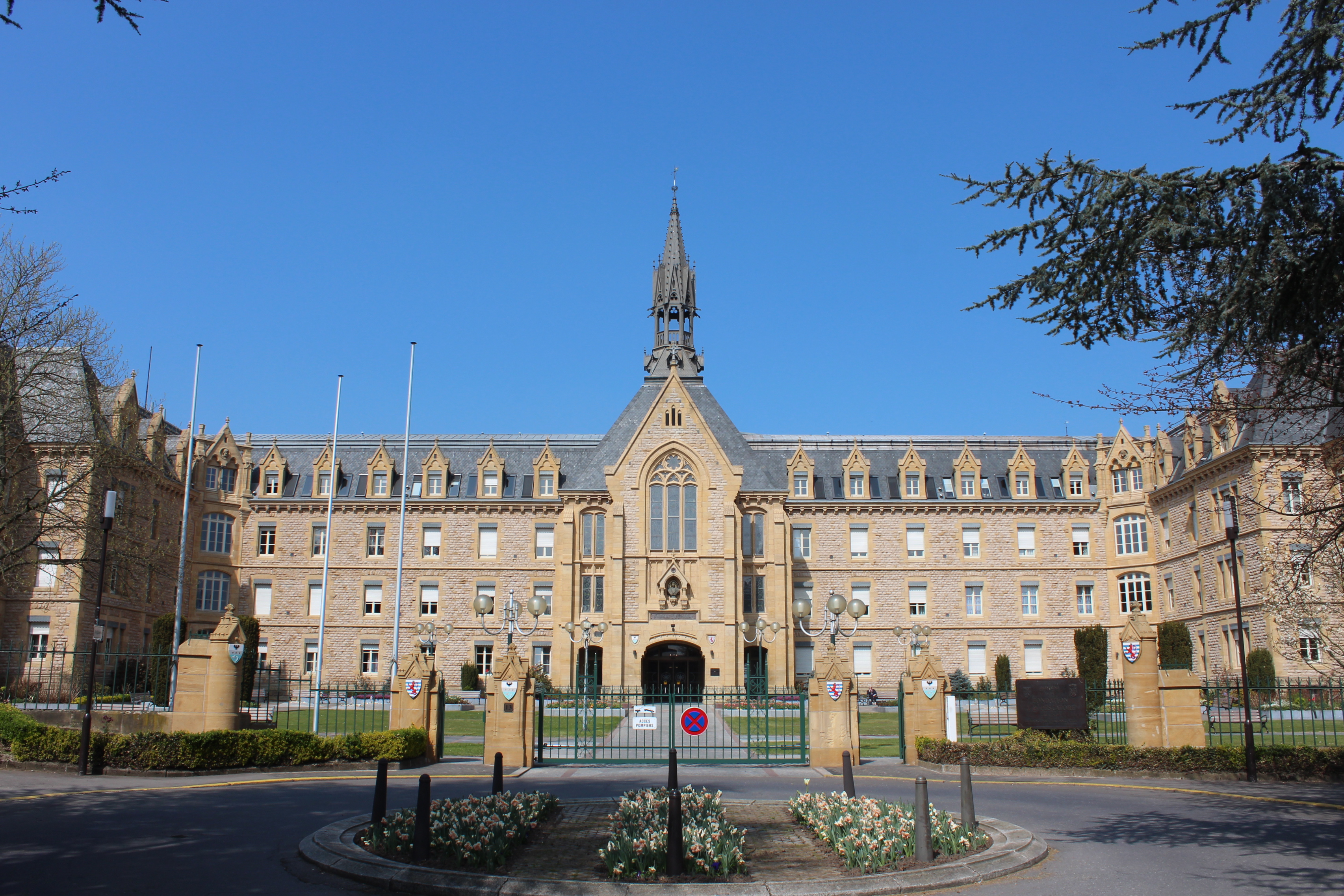 Fondation Pescatore in Luxembourg City